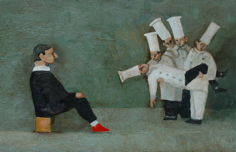 A photograph of "The Red Shoe", a painting by William Balthazar Rose, which is now in the private collection of Michel Roux Jr.